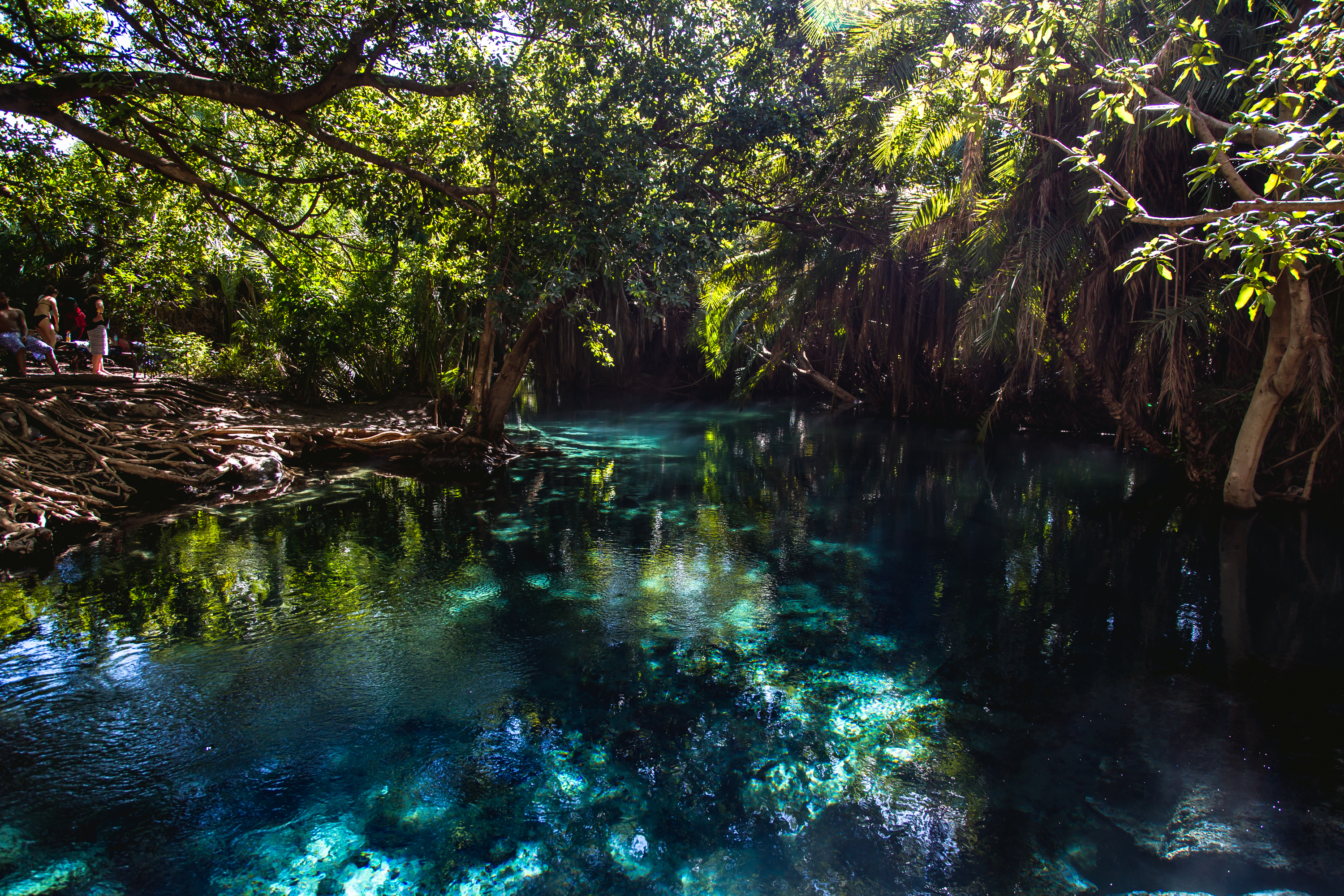 Maji Moto, also known as Kikuletwa Hotsprings, is an oasis in the Savannah in the hinterland of the Kilimanjaro region, situated 40 kilometres from Moshi.